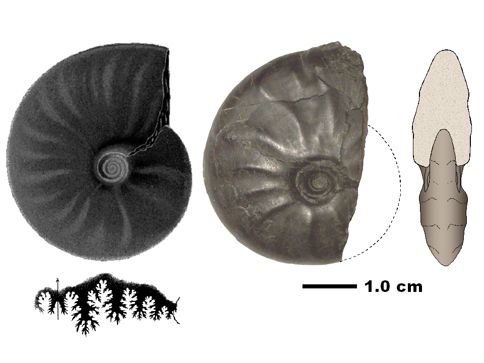 Flexoptychites flexuosus (Mojsisovics, 1882)- Late Anisian (Middle Triassic). Incomplete specimen from the Prezzo Limestone (Lombardian southern Alps - Italy). Idealized umbilical view and sutural pattern reported on left; idealized ventral profile reported on right.